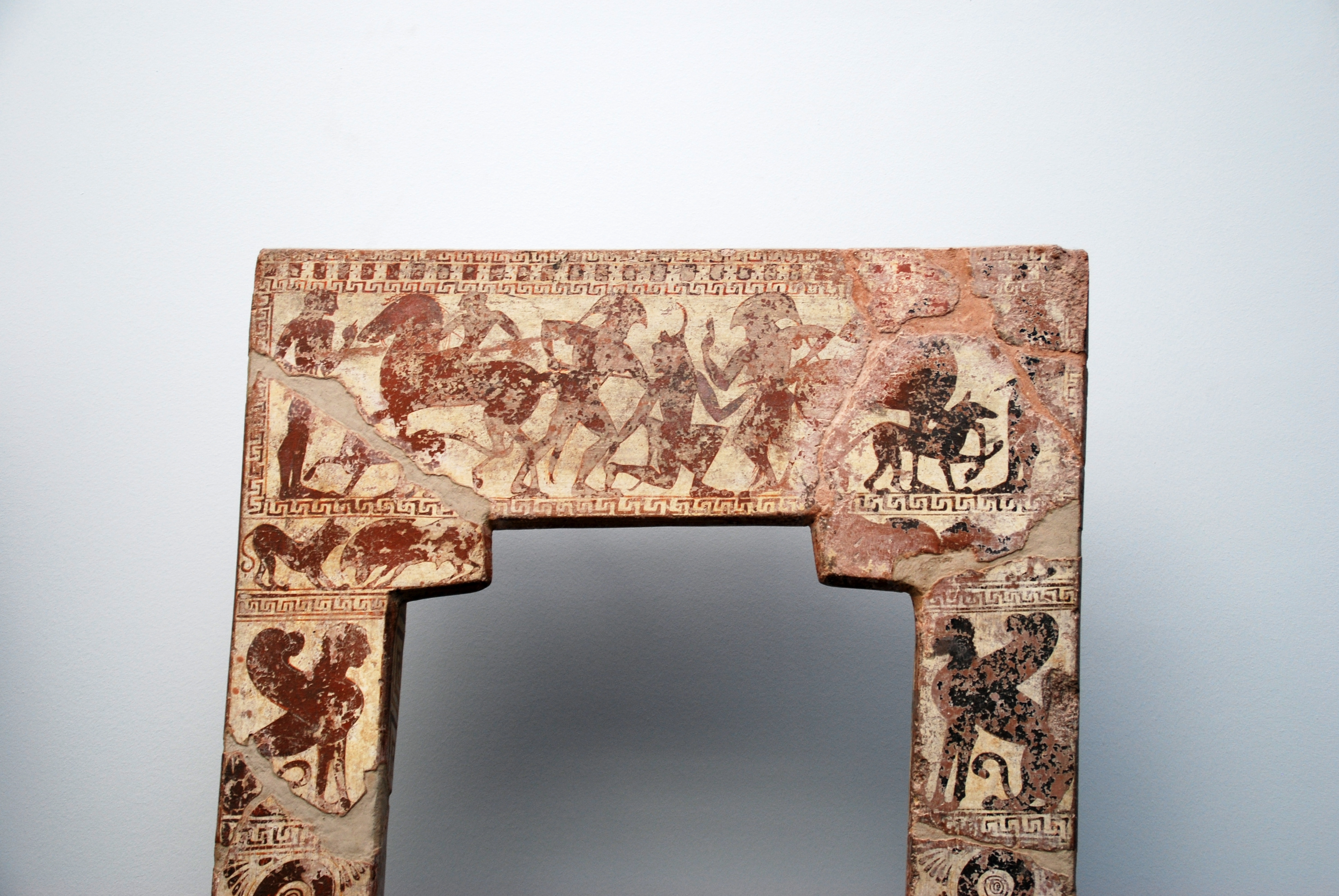 Uploaded Raw material, everybody can work on Names, Categories, Descriptions and so on.. - pictures of descriptions should be deleted after usage.